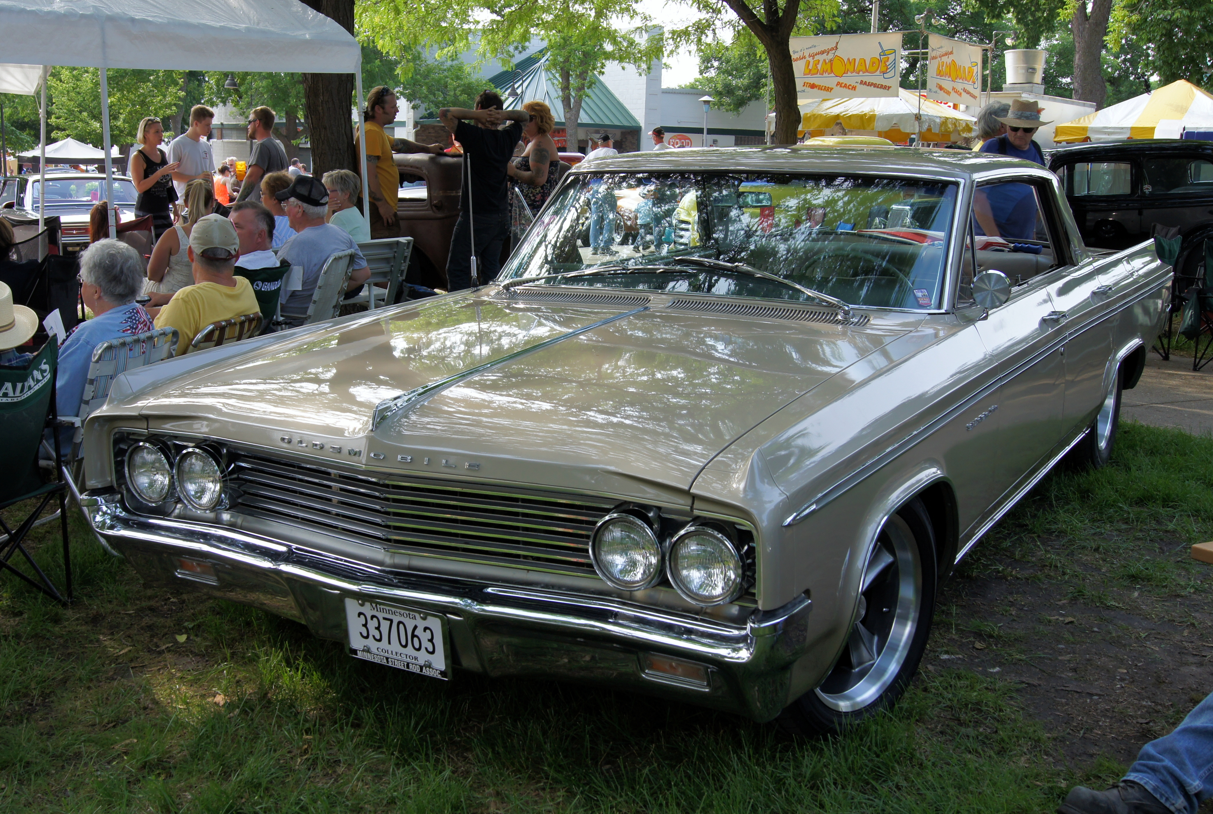 MSRA “BACK TO THE 50′s” 40th ANNIVERSARY June 21-23, 2013 State Fairgrounds St. Paul Minnesota More Car Pictures